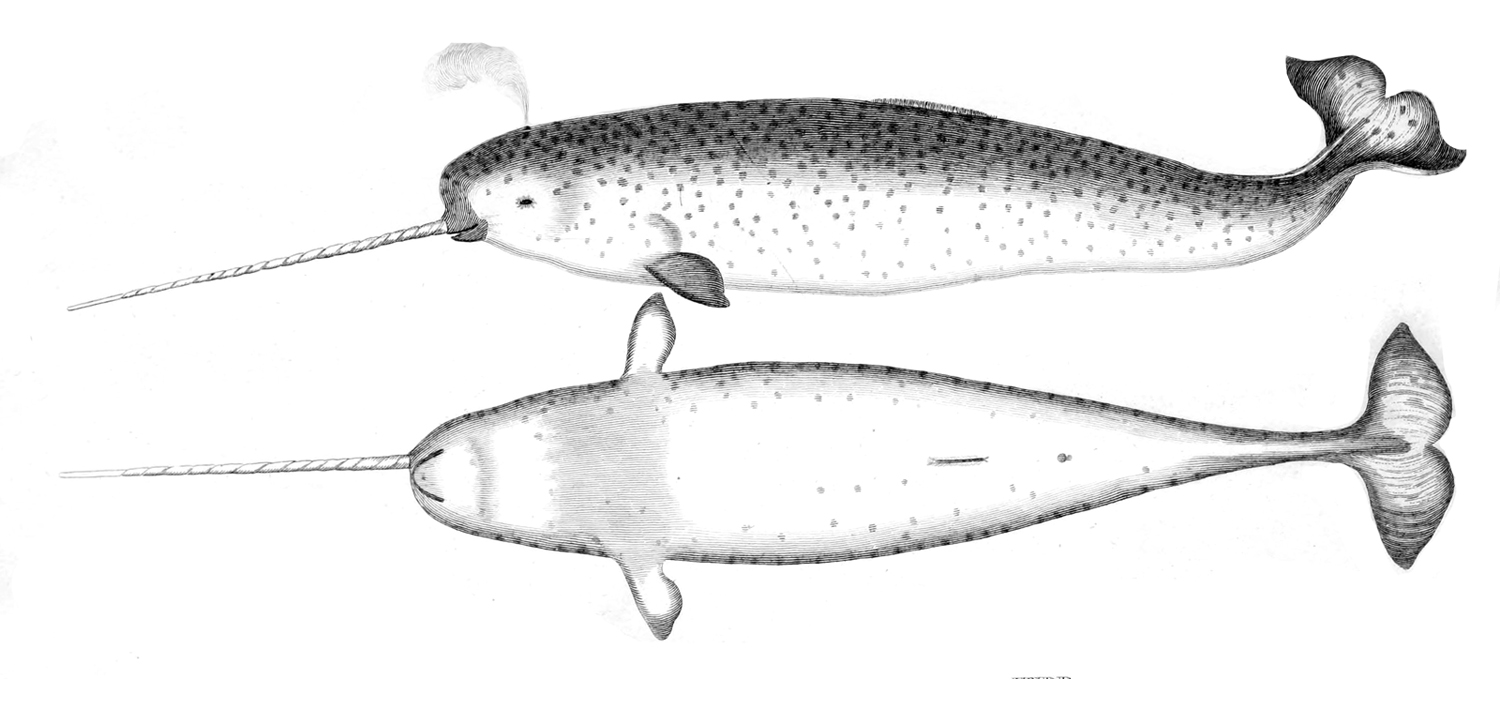 'Male Narwhal or Unicorn. Greenland Shark.' (Monodon monoceros)